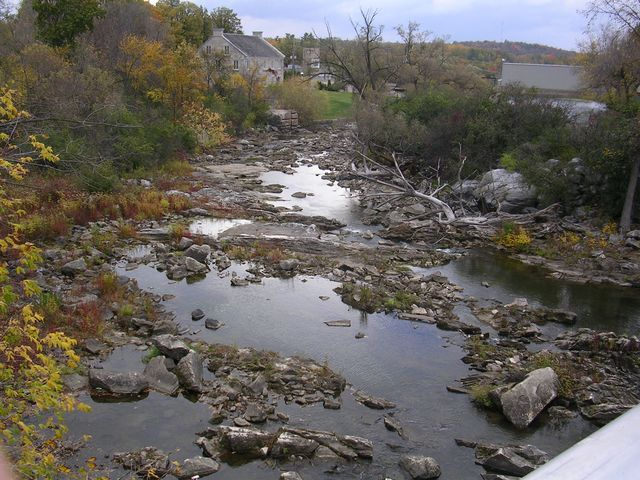 Bonnecherre River taken by me